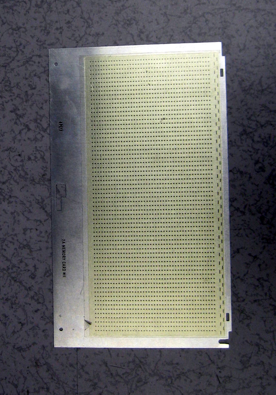 Type 2A memory card from en:1ESS switch. Each magnetic square dot recorded one bit. The card stored 64 words of 44 bits each